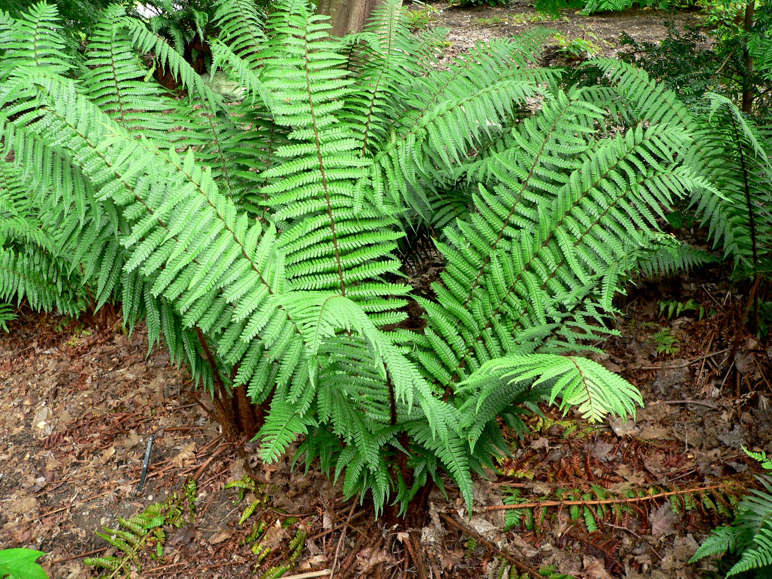 Photo of Dryopteris wallichiana at the UBC Botanical Garden in Vancouver